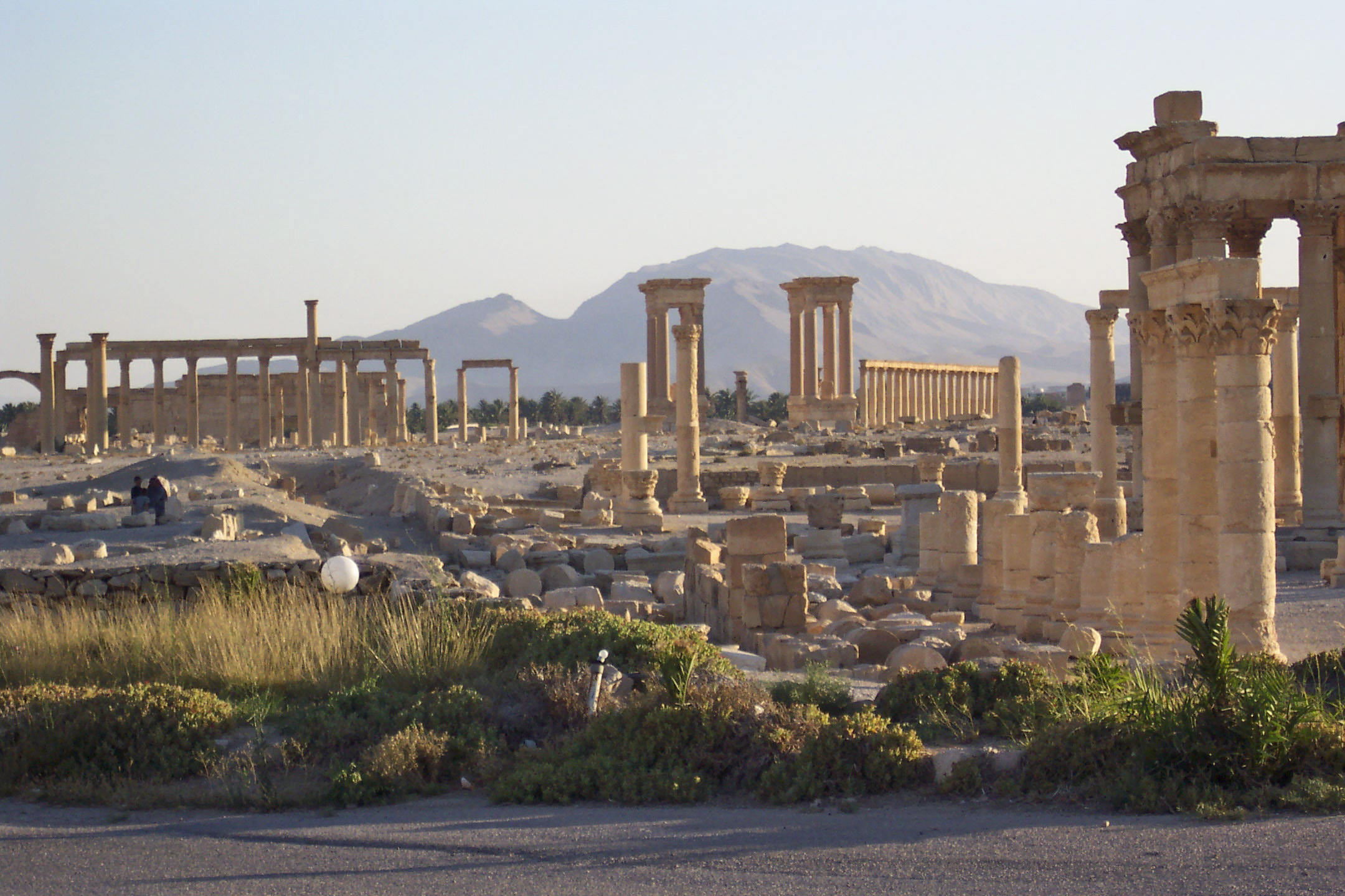 The ruins of Palmyra, Syria, seen from the terrace of the Zenobia Hotel. Baal Shamin temple on the right, Tetrapylon in the center.